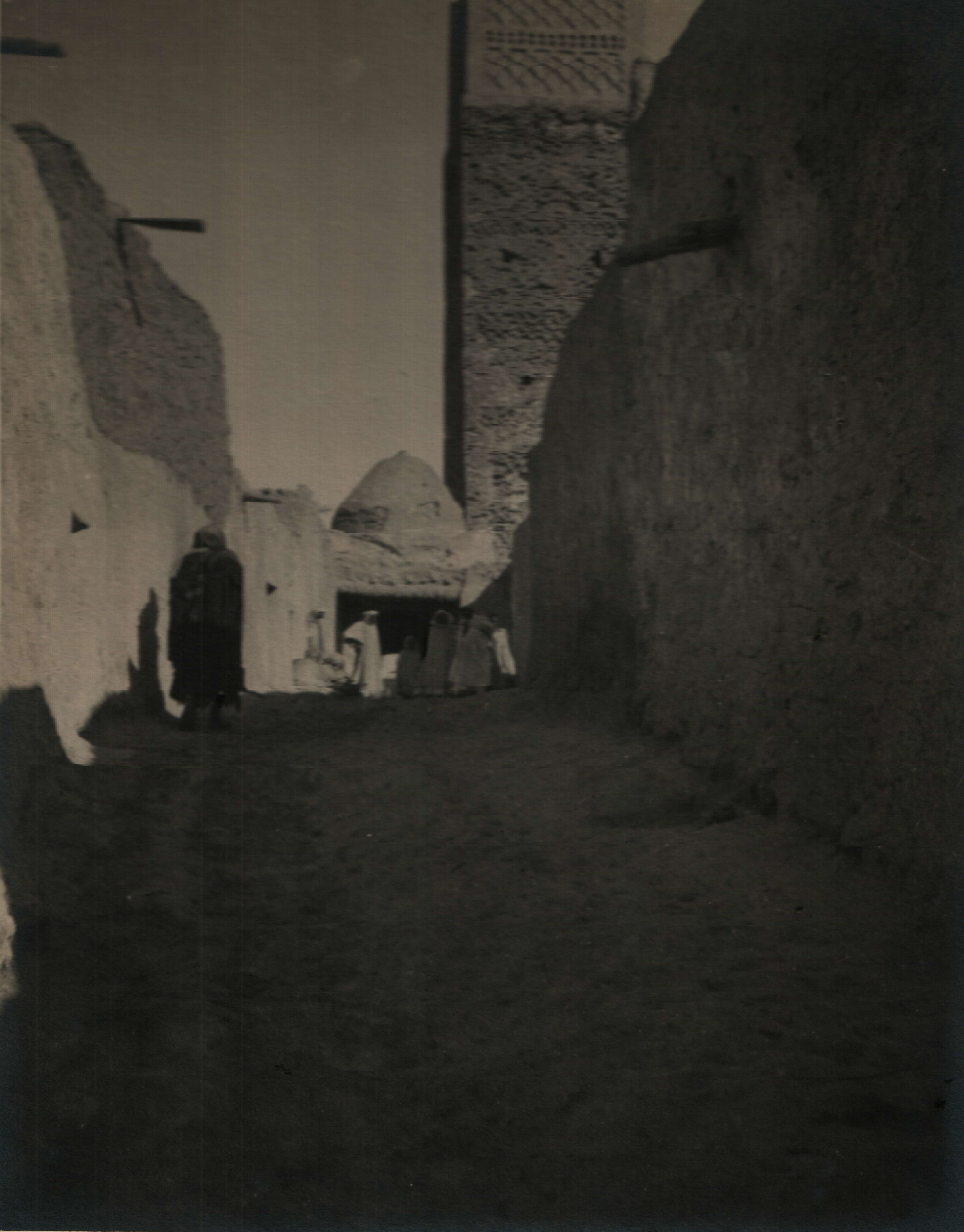 Views and photos of the Sahara desert and other regions in Africa. "Rue de la grande mosquée" street in Tamacine, Algeria.